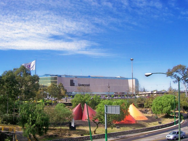 outside photo of the perisur mall